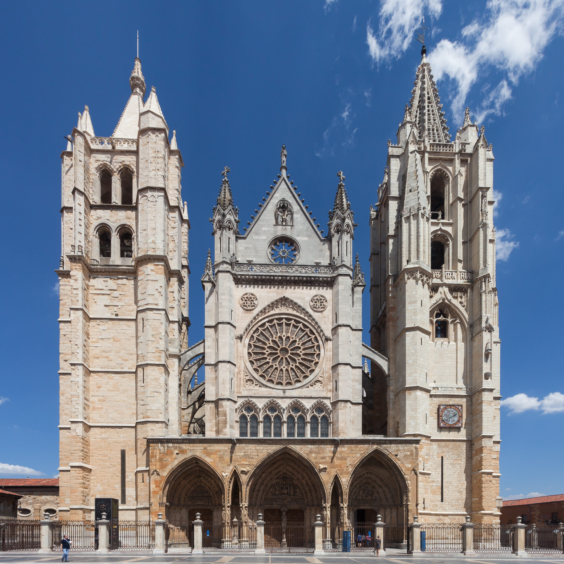 León Cathedral, Spain.